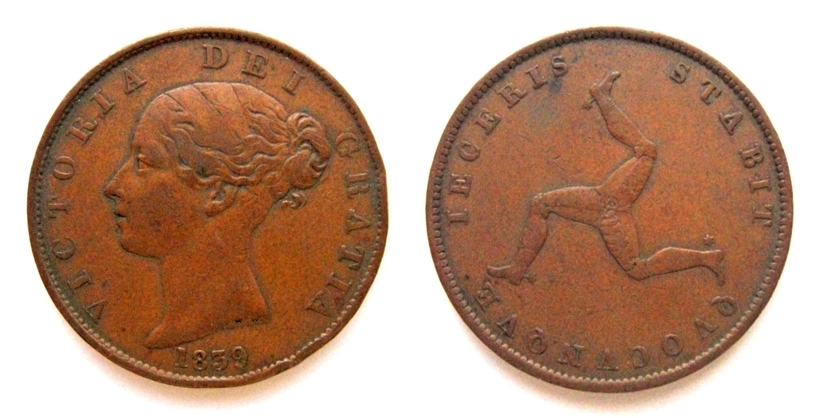 Both sides of an 1839 Isle of Man penny.